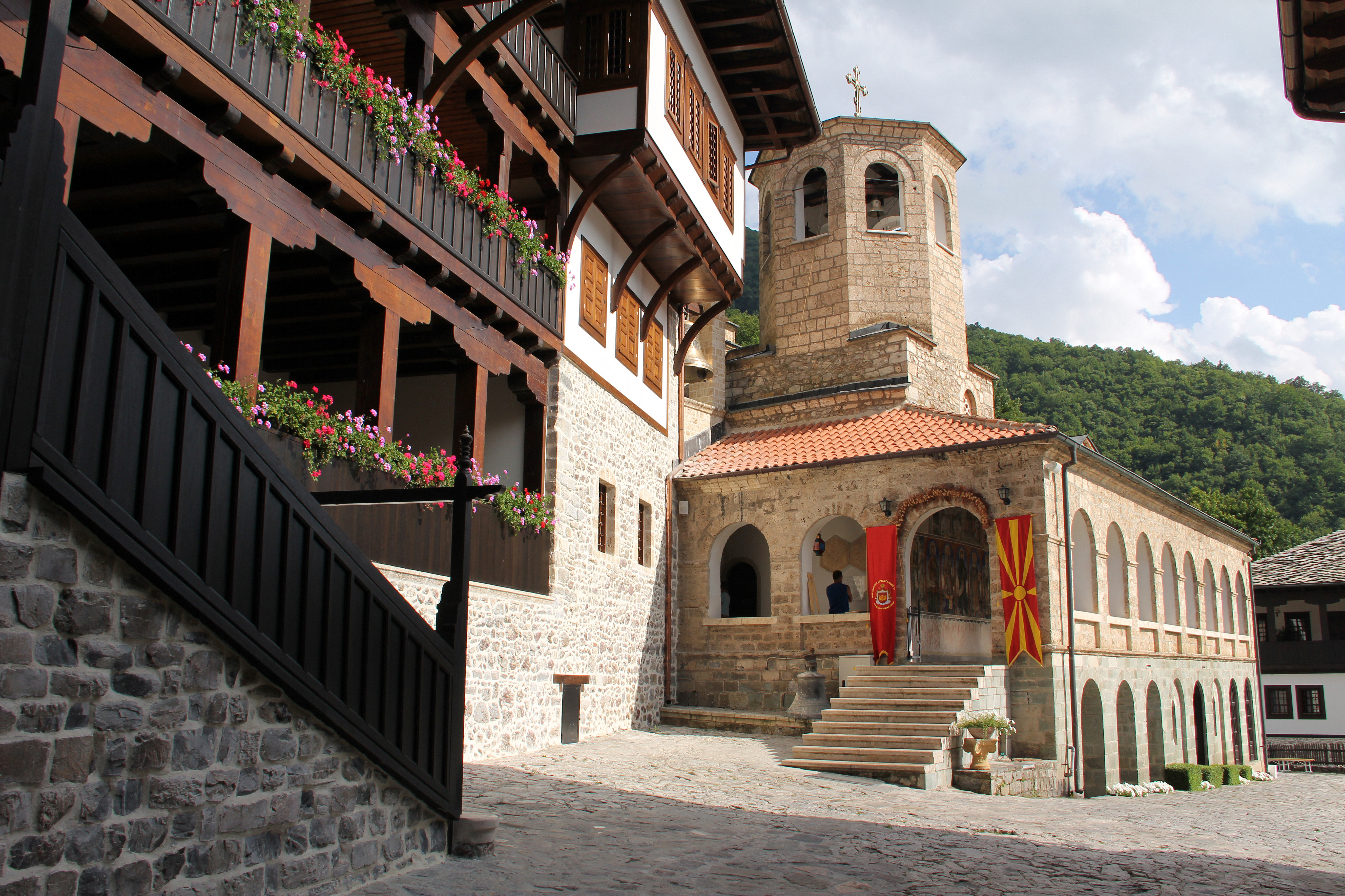 The Church of St. John the Baptist, the Monastery of Saint Jovan Bigorski, Macedonia